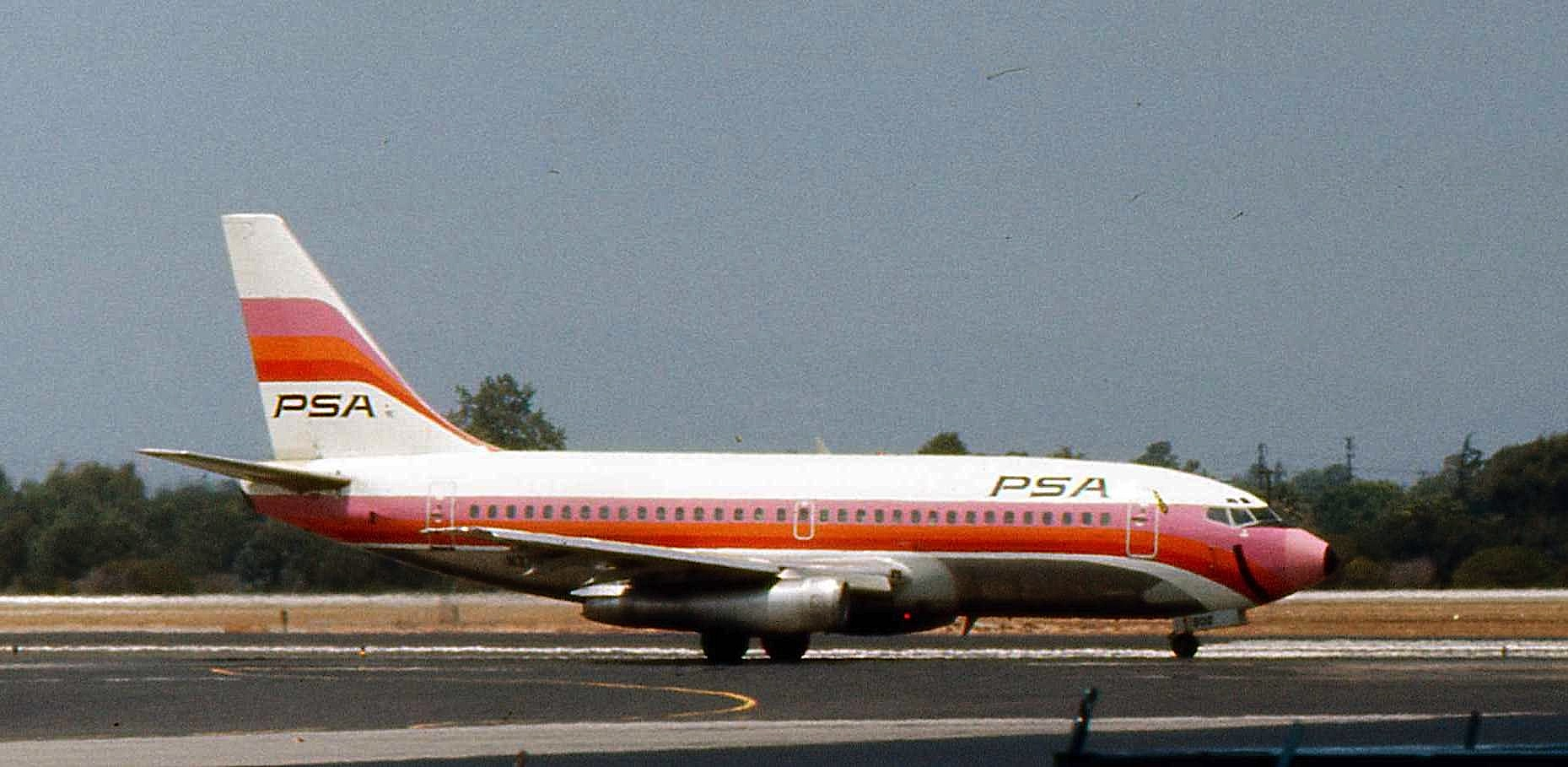 Pacific Southwest Airlines Boeing 737214, N379PS, c/n 19682, delivered on October, 5, 1968 taken in 1974 with the “smiling” livery.